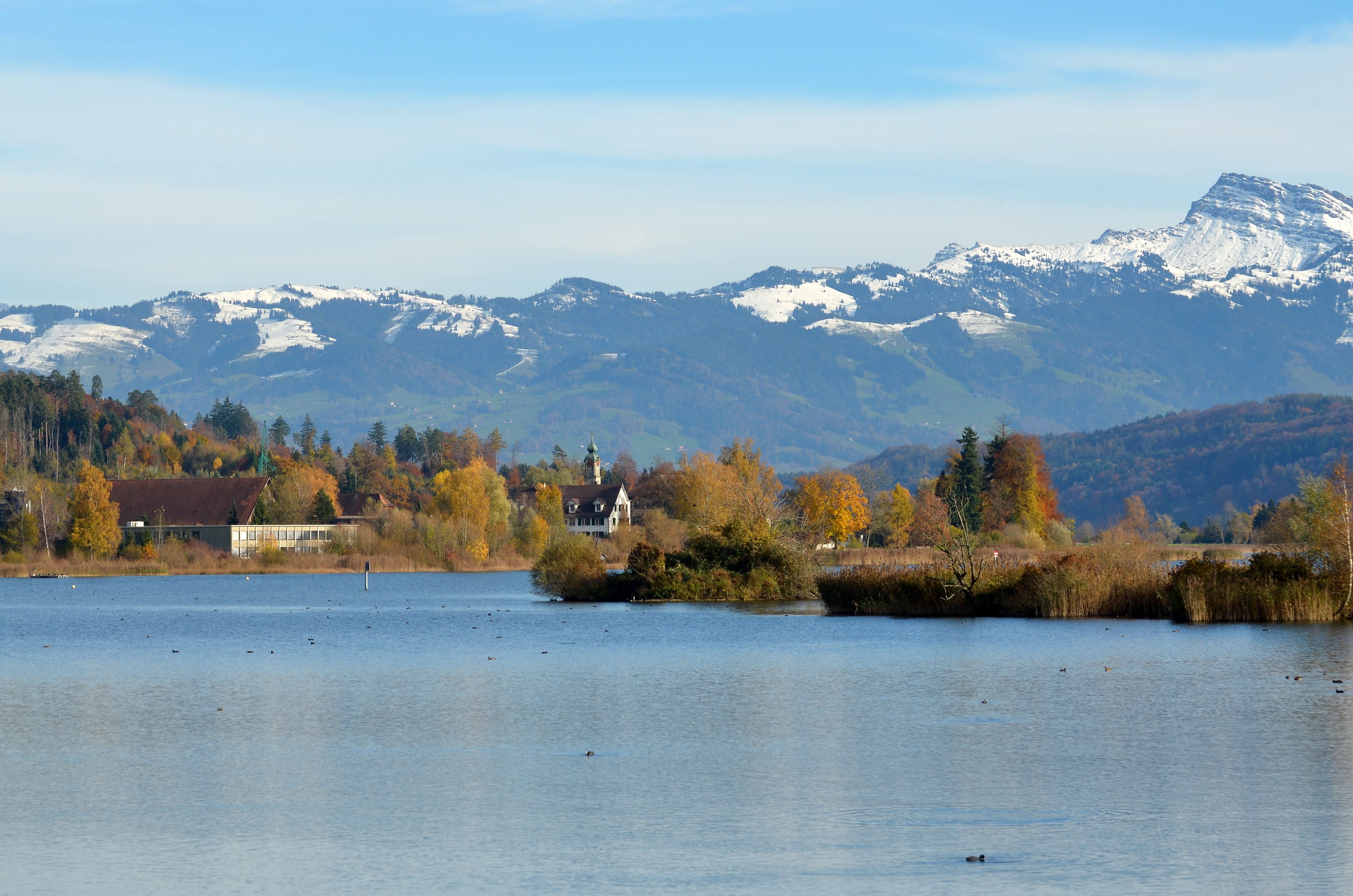 Obersee (upper Lake Zurich) and Wurmsbach, as seen from the Jona river nearby Stampf in Jona (Switzerland), Speer mountain (to the right) in the background.